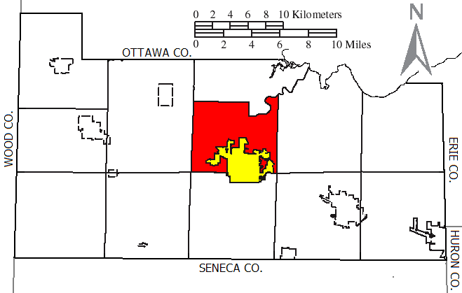 Made by the US Census and modified by User:Frank12